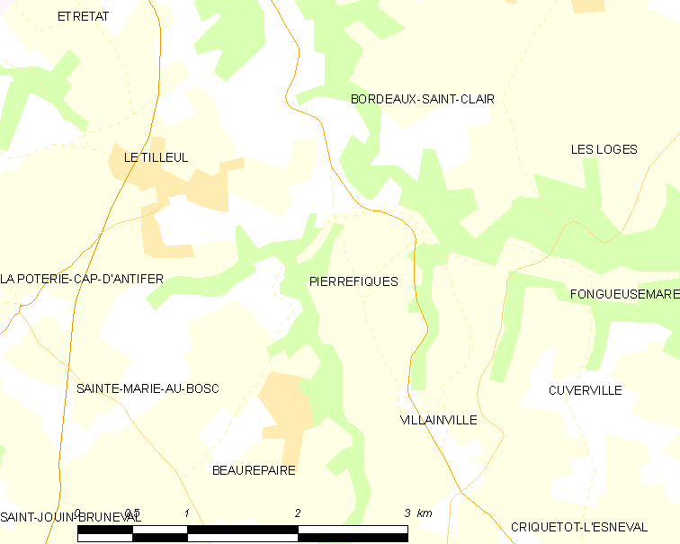 Map of French municipality Pierrefiques